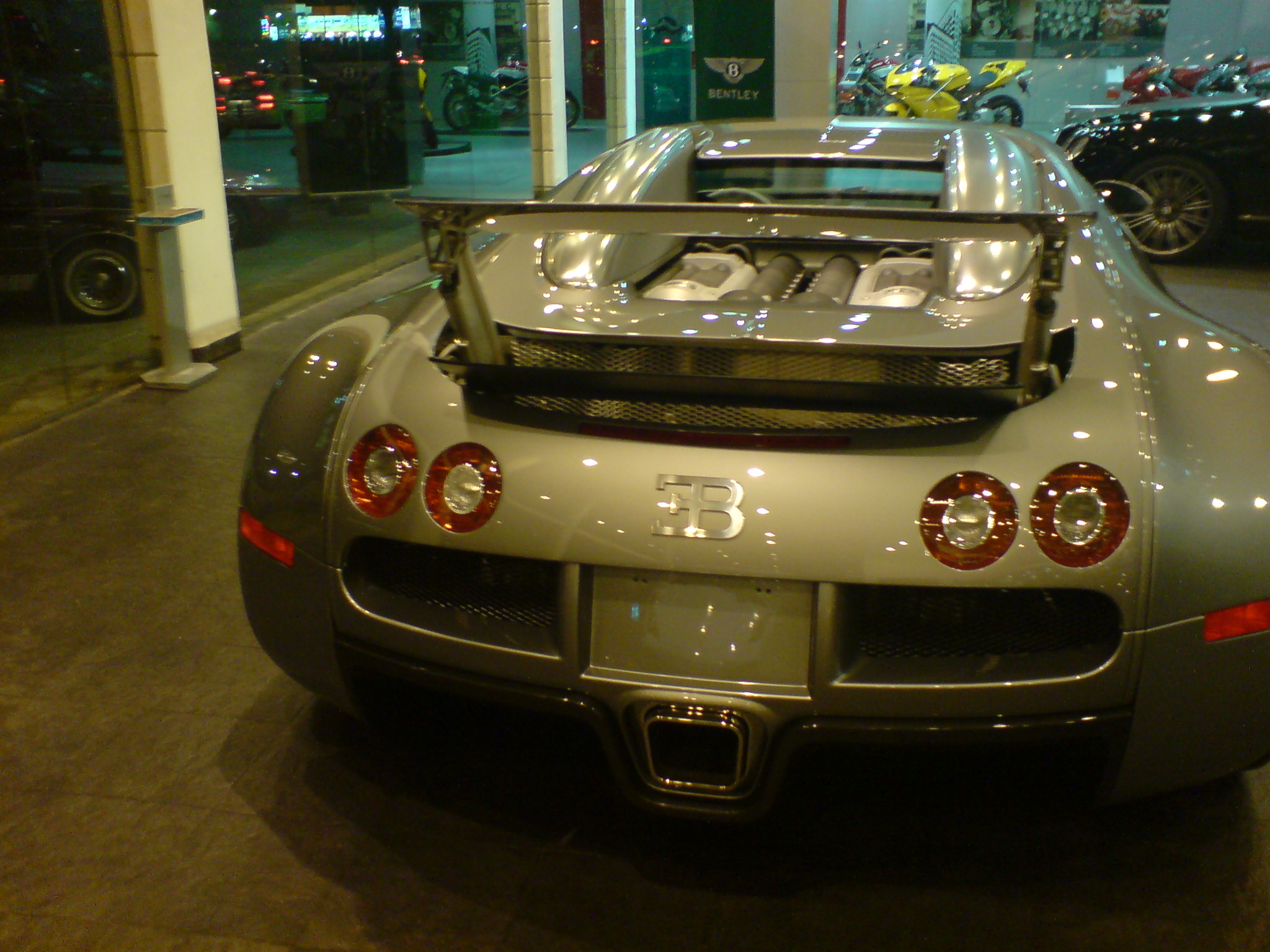 Bugatti Veyron 2008, Rear view